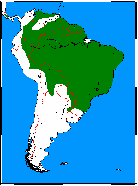 Range map for Oncilla (Leopardus tigrinus), made by me with help of Map depending on the range map at IUCN red list.